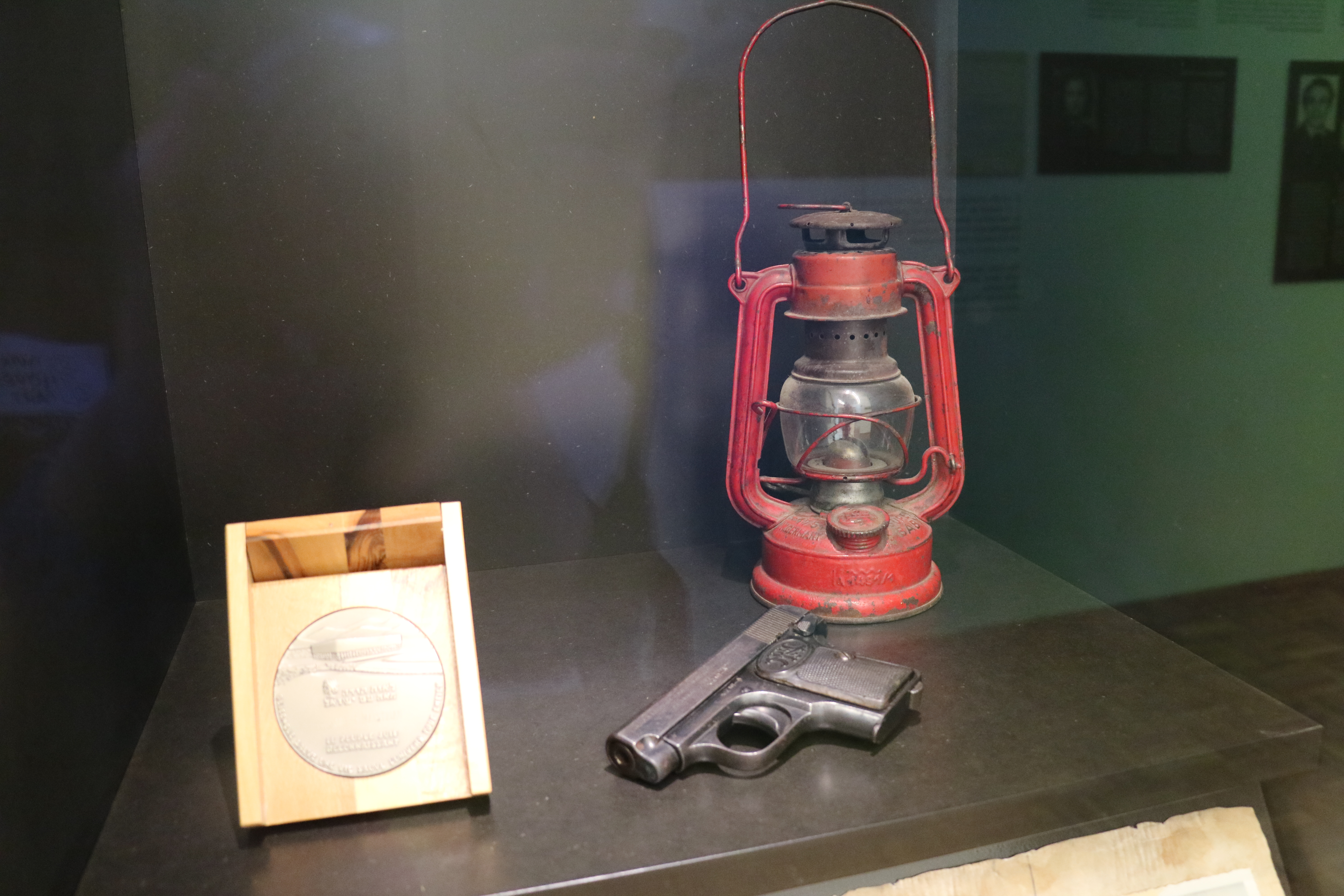 Items used by Youra Livschitz, Robert Maistriau and Jean Franklemon in their attack on the 20th rail transport during the Holocaust in Belgium This is a file created at the museum: Kazerne Dossin Memorial in Mechelen